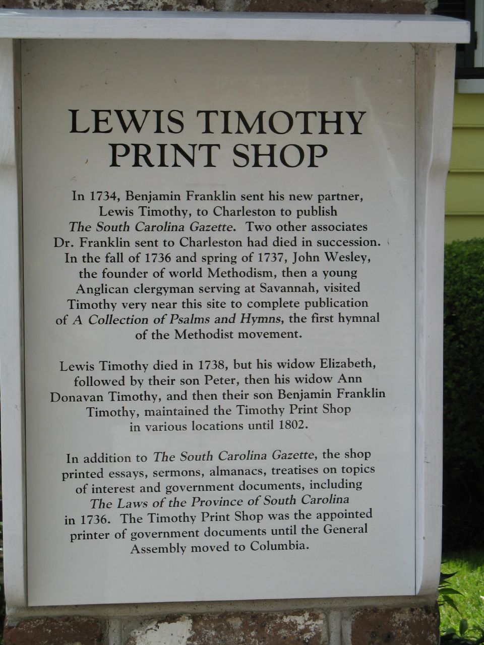 Lewis Timothy plaque at his print shop in Charleston, South Carolina